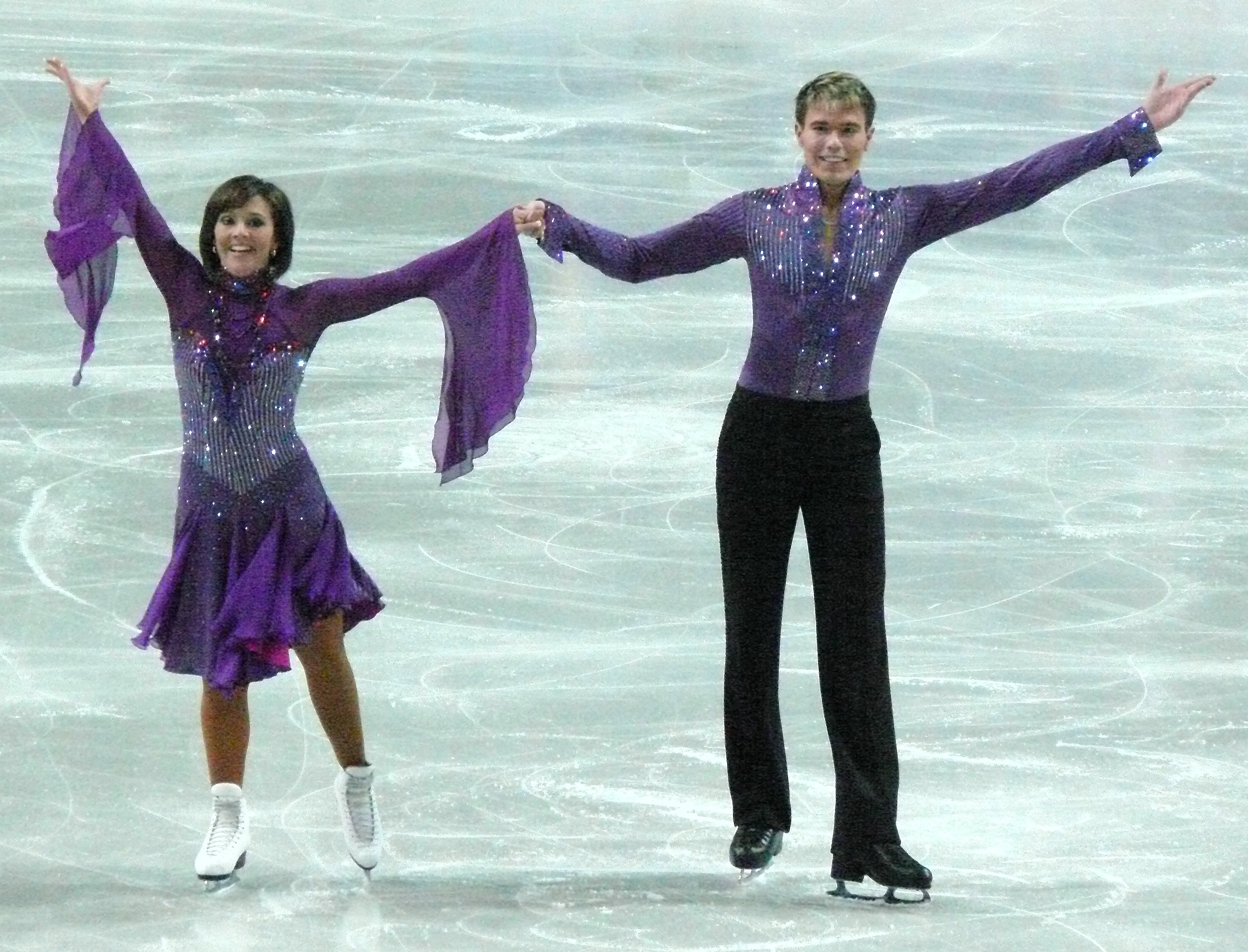 Phillipa Towler-Green and Phillip Poole at the Europan Chamionships 2007 in Warsaw